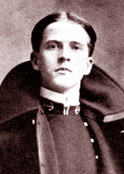 Photograph of United States Navy sailor and Medal of Honor recipient Ensign Frederick V. McNair, Jr. around the time of his graduation from United States Naval Academ in 1903.